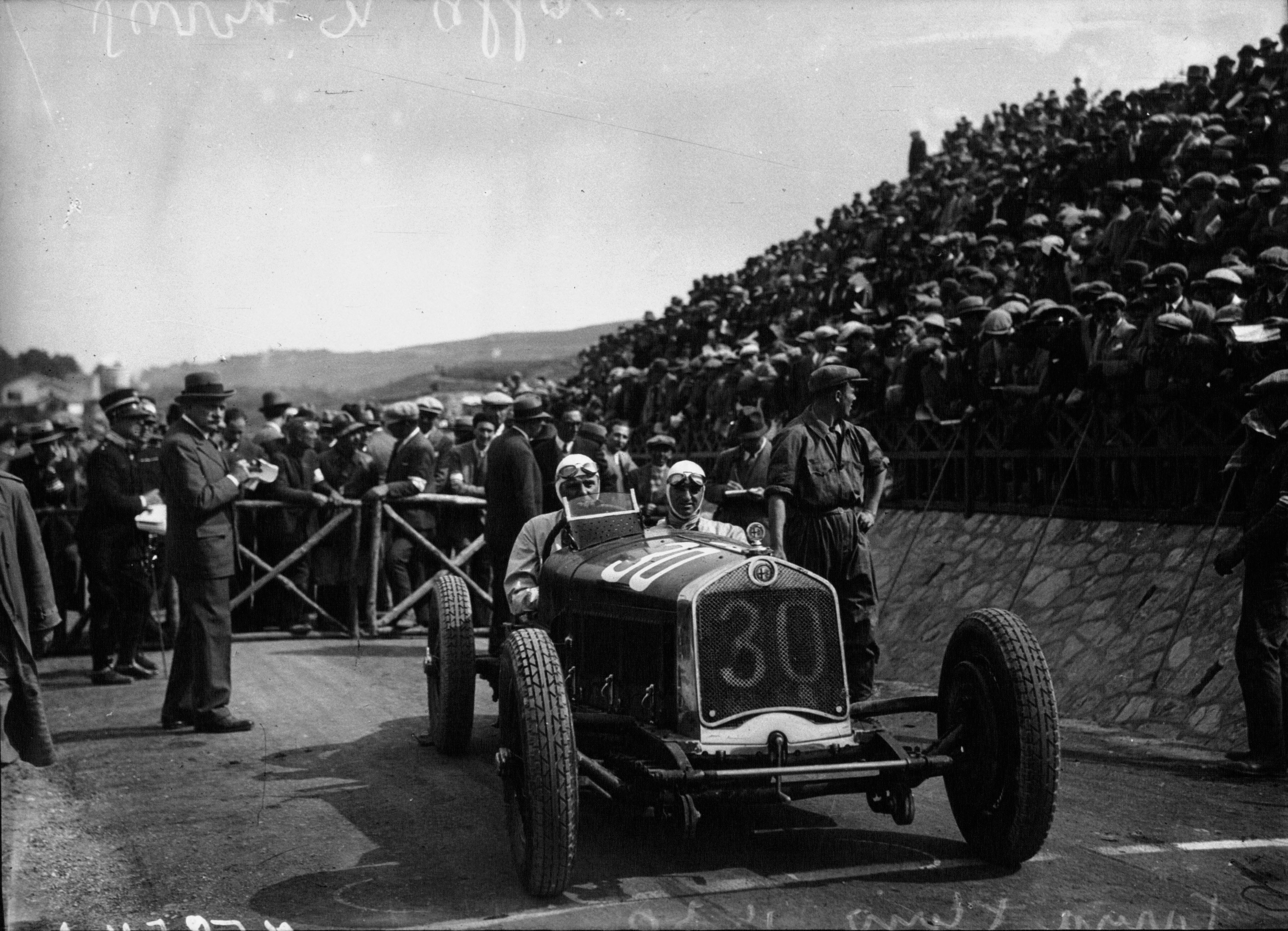 Achille Varzi in his Alfa Romeo at the 1930 Targa Florio.